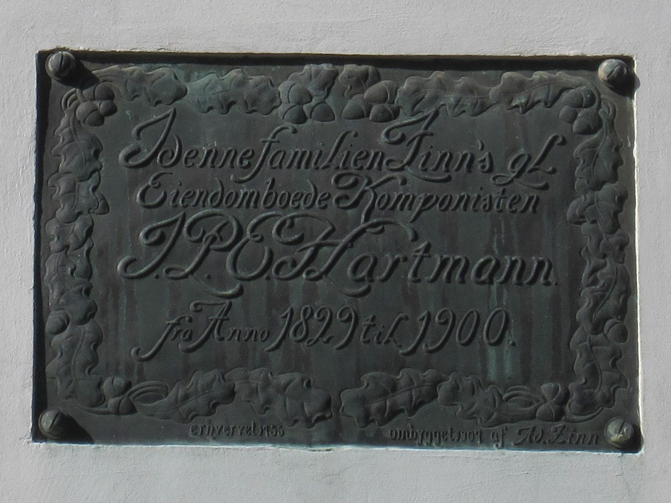 Hartmann commemorative plague at Kvæsthusgade 3 in Copenhagen, Denmark